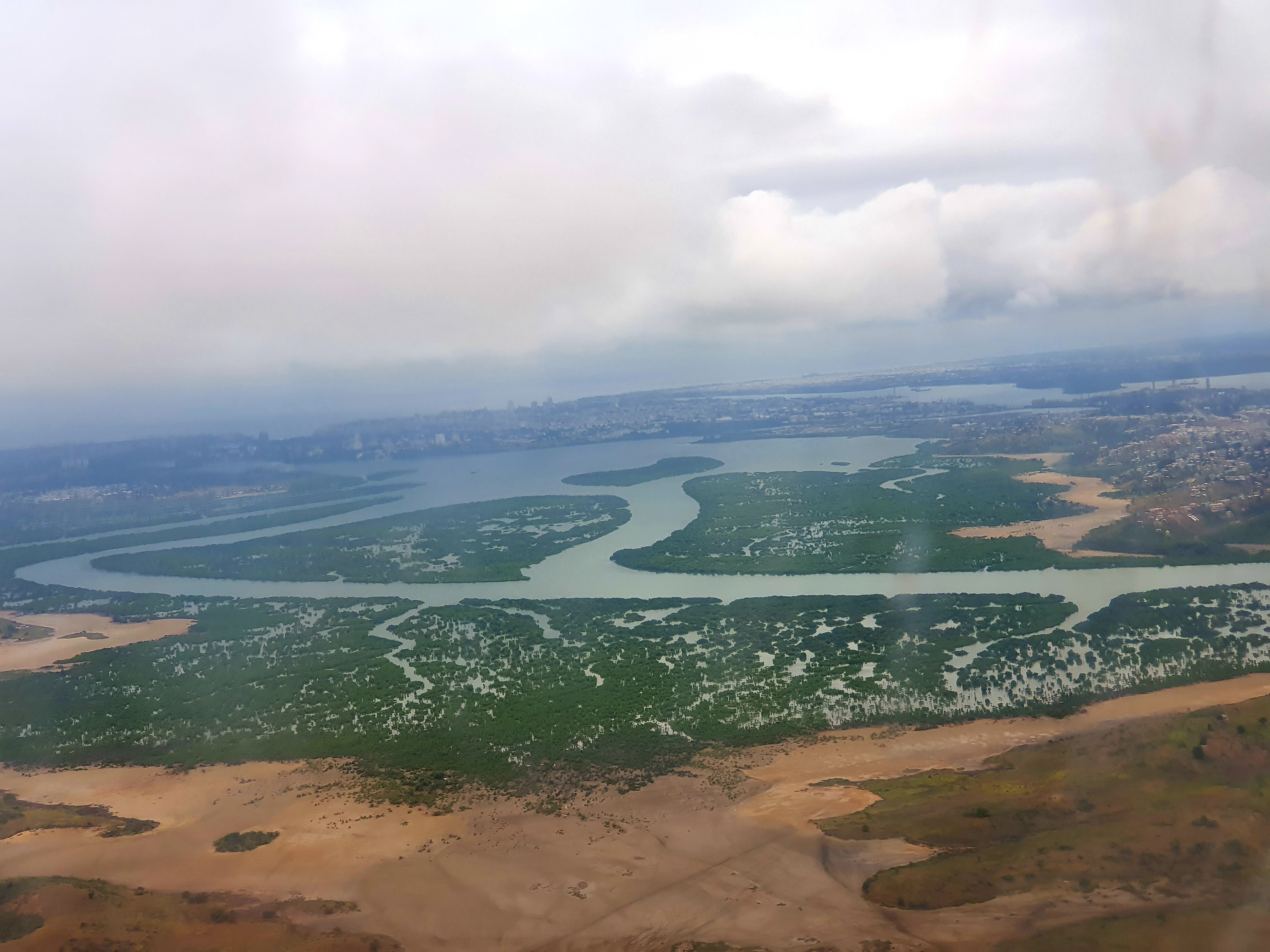 Aerial view over Tudor creek, Mombasa, Kenya This is an image with the theme "Africa on the Move or Transport" from: Kenya